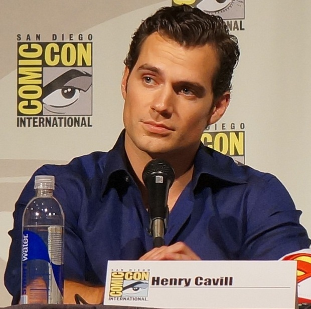 Henry Cavill at the Man of Steel panel at the 2013 San Diego Comic Con International on uly 20, 2013